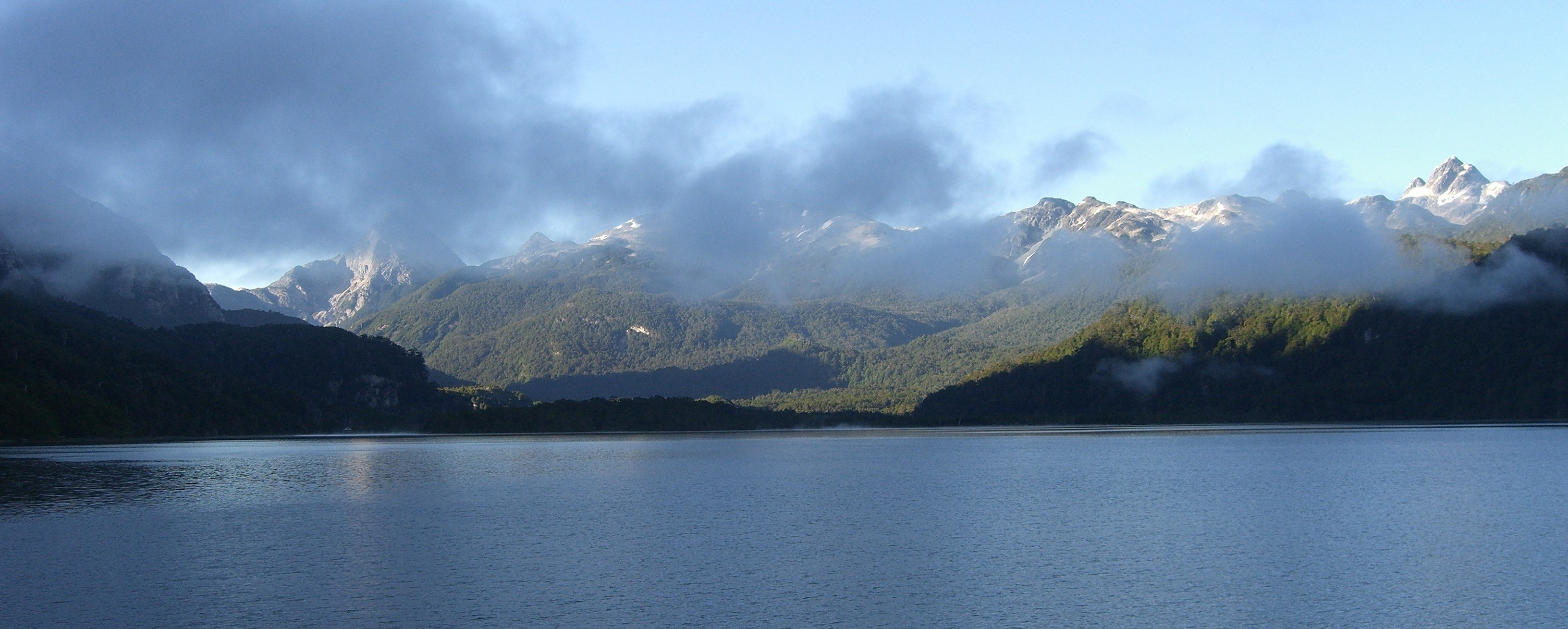 A beautiful little lake with the early morning mist just clearing.